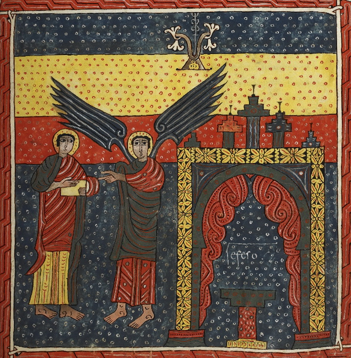 Silos Apocalypse (1109) - BL Add MS 11695